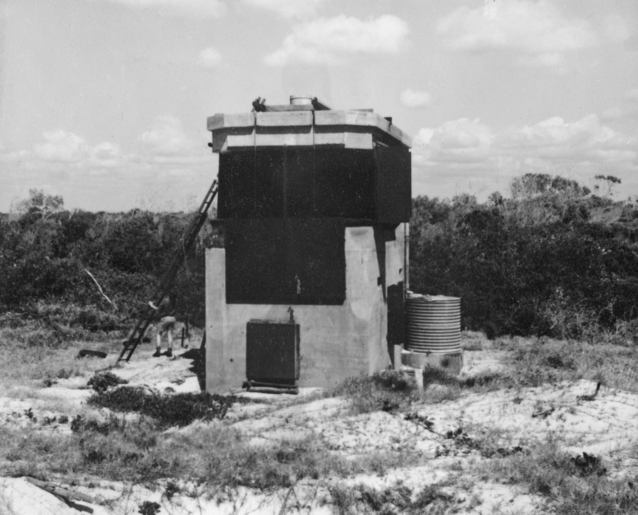 An observation post which formed part of the Fort Bribie defence system, as of 1943